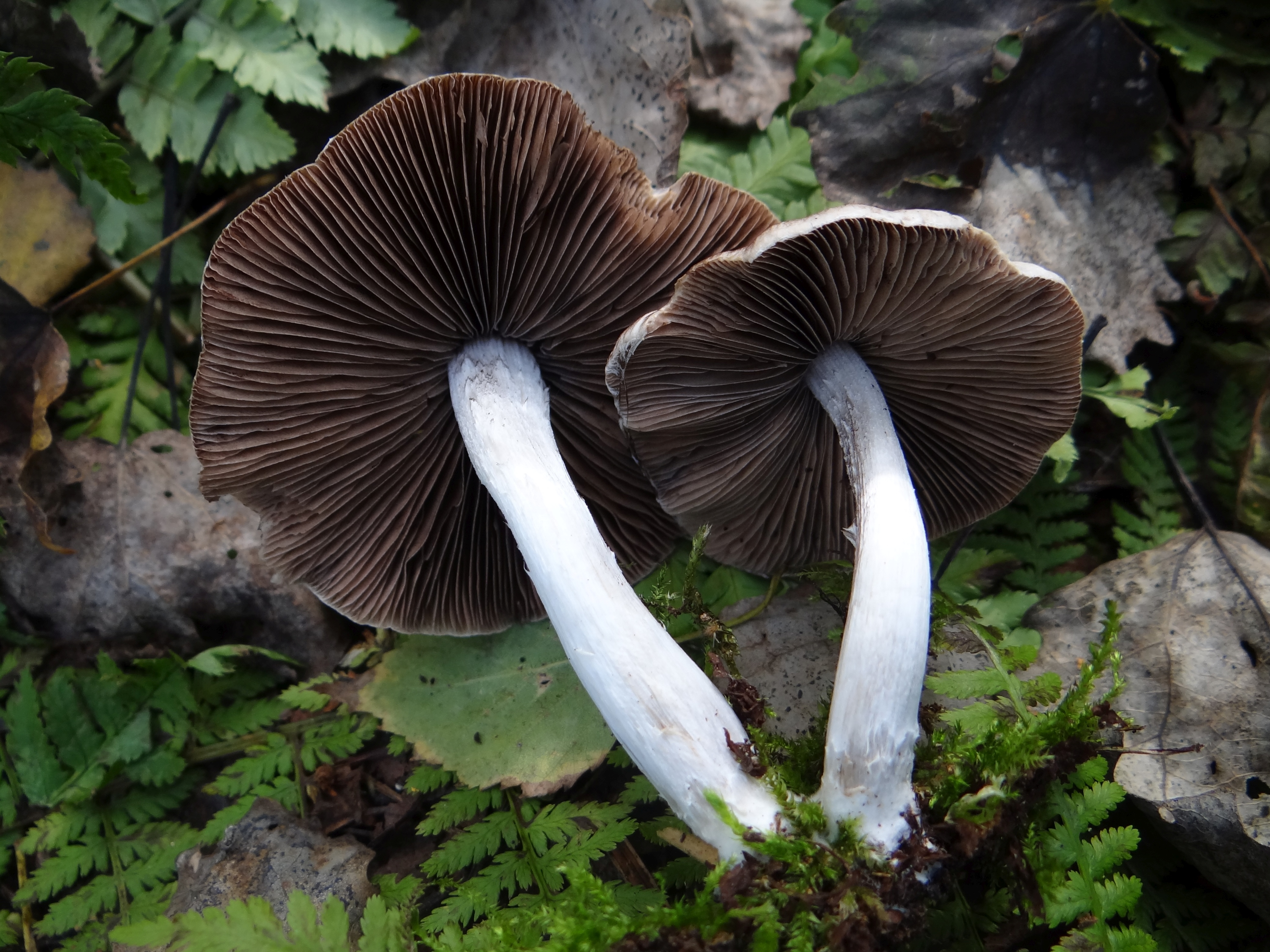 Psathyrella candolleana (location: Poland, Beskid Wyspowy, Łopień)